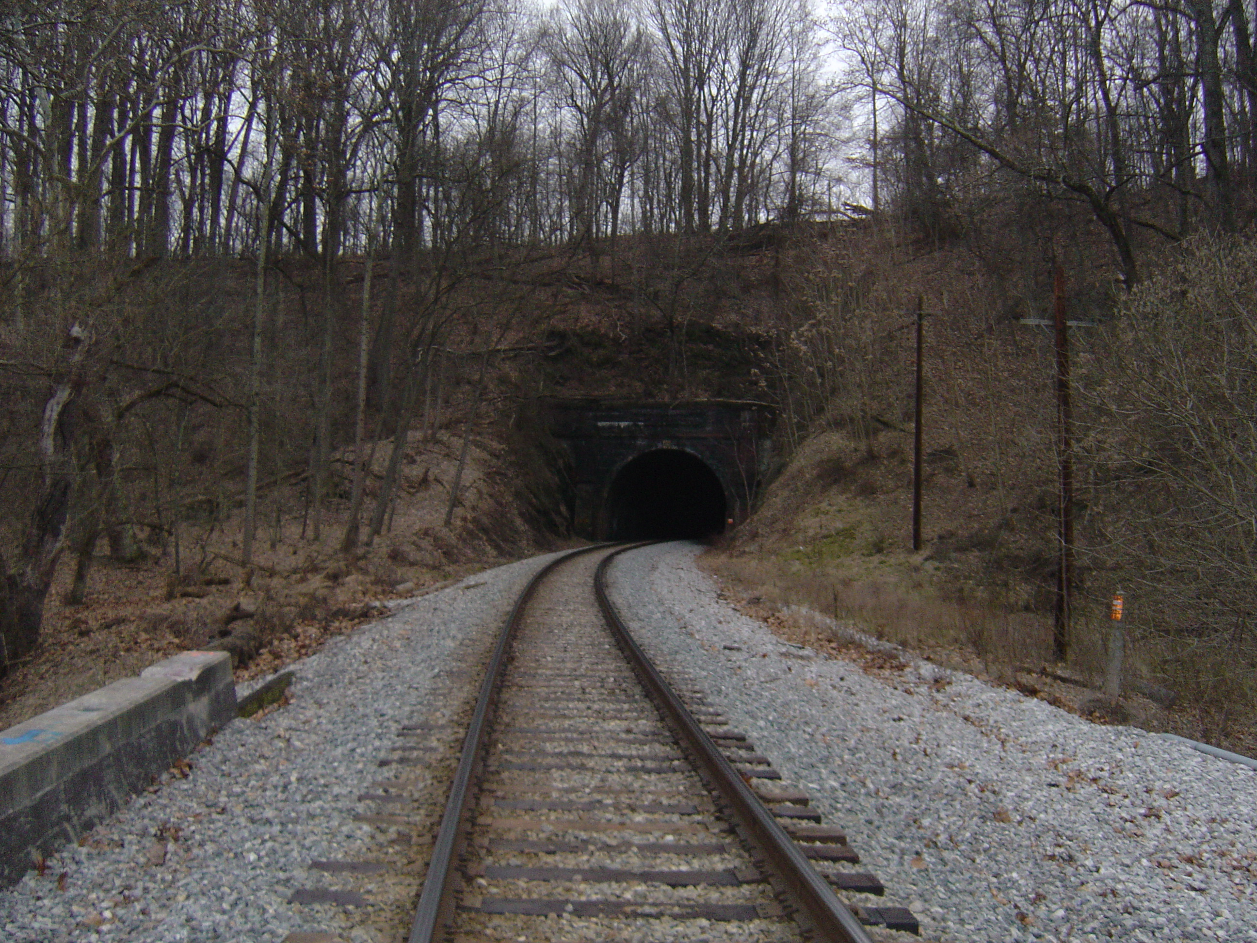 Henryton Tunnel east entrance. Located near Henryton, Carroll County, Maryland. Built by the Baltimore and Ohio Railroad in 1850.